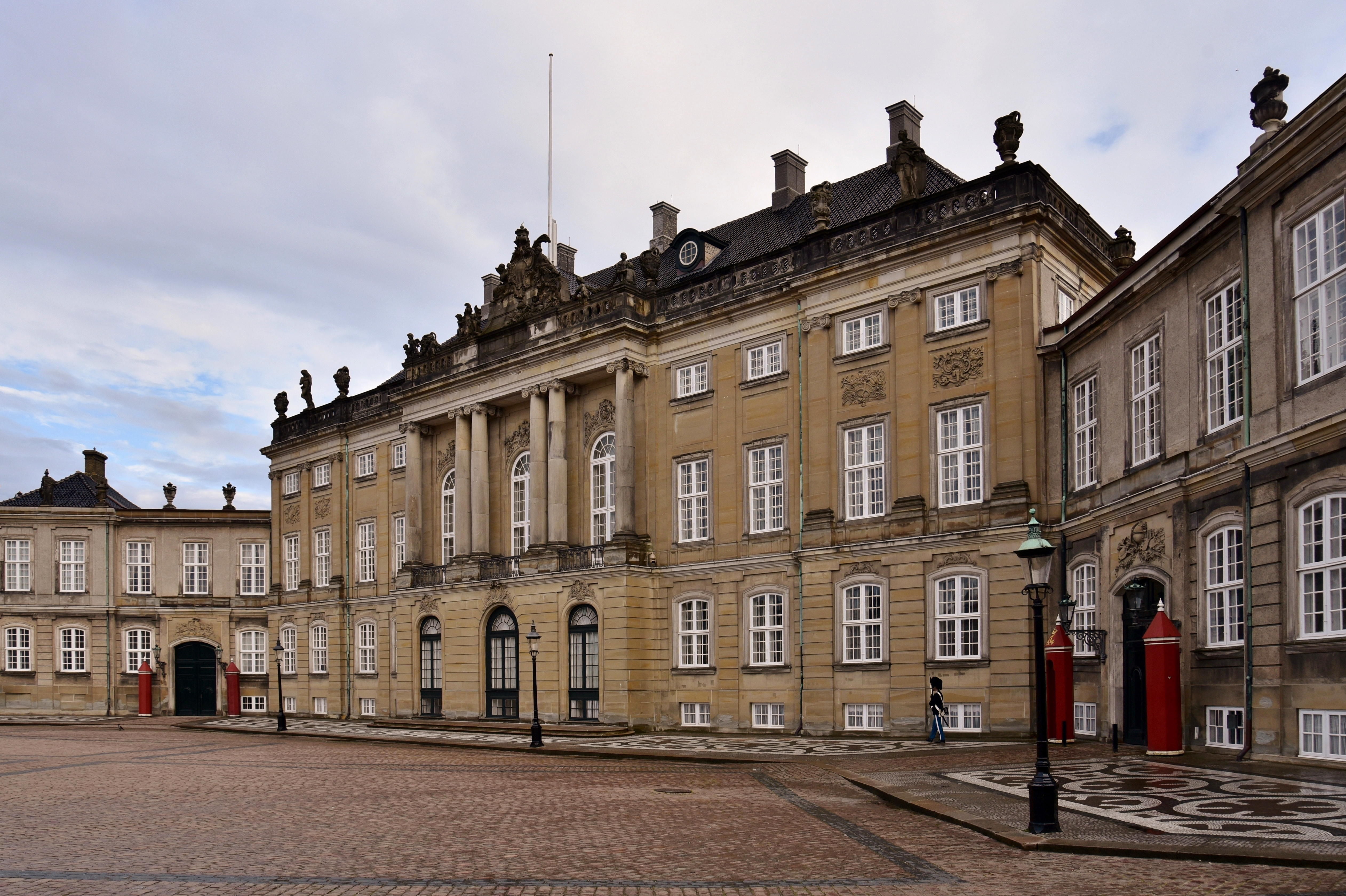 View of Christian IX's Palæ, part of the Amalienborg Palace, Copenhagen